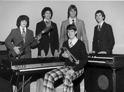 L-to-R: Tom, Pat, Michael Daughterty, Tim, and Matt